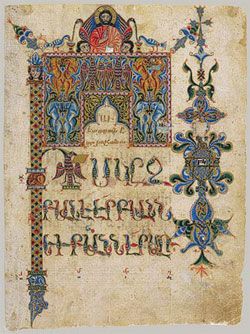 Page of Bible on armenian language, Metropolitan Museum of Art 38.171.2